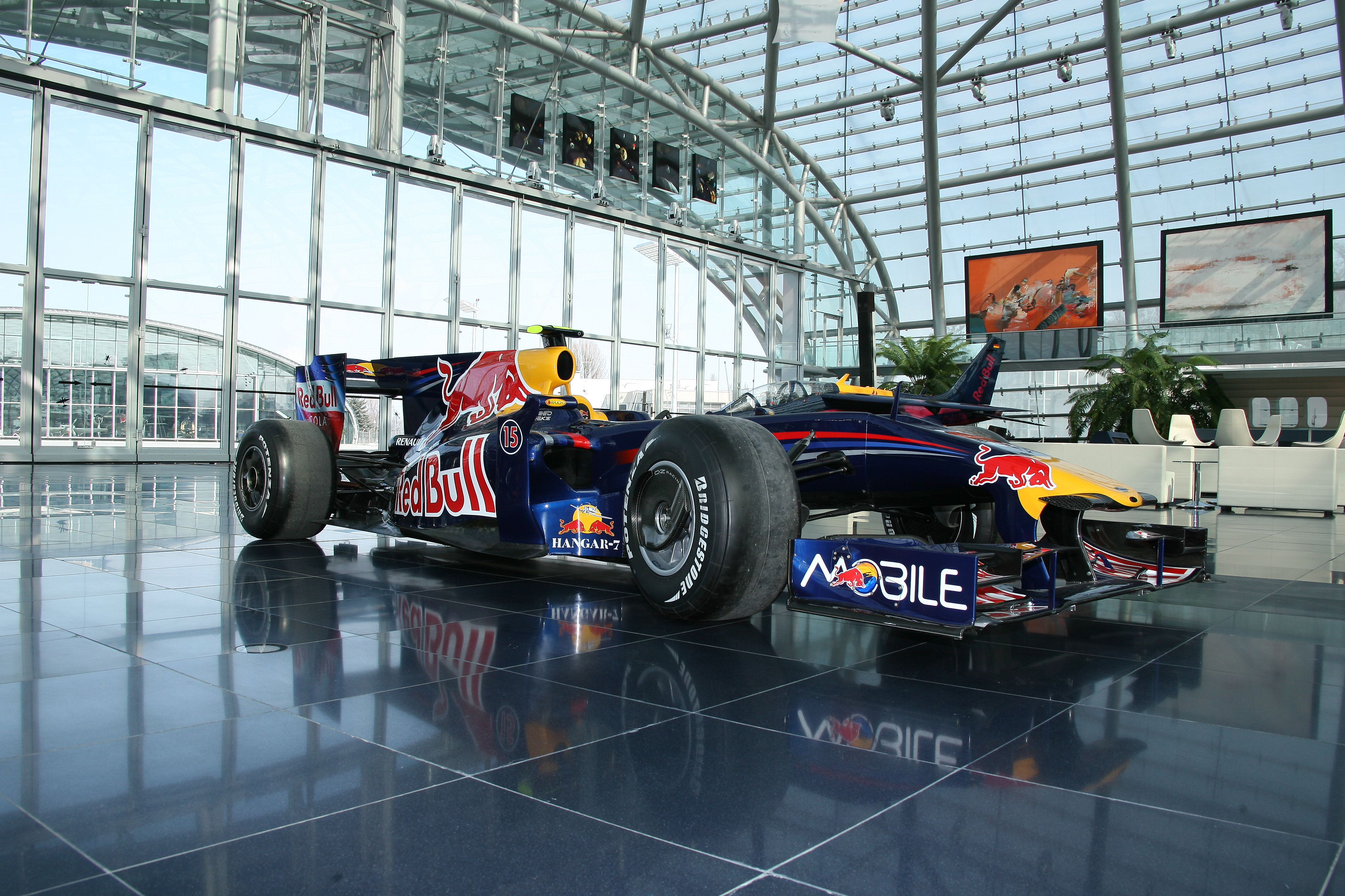 Red Bull RB5; Hangar-7